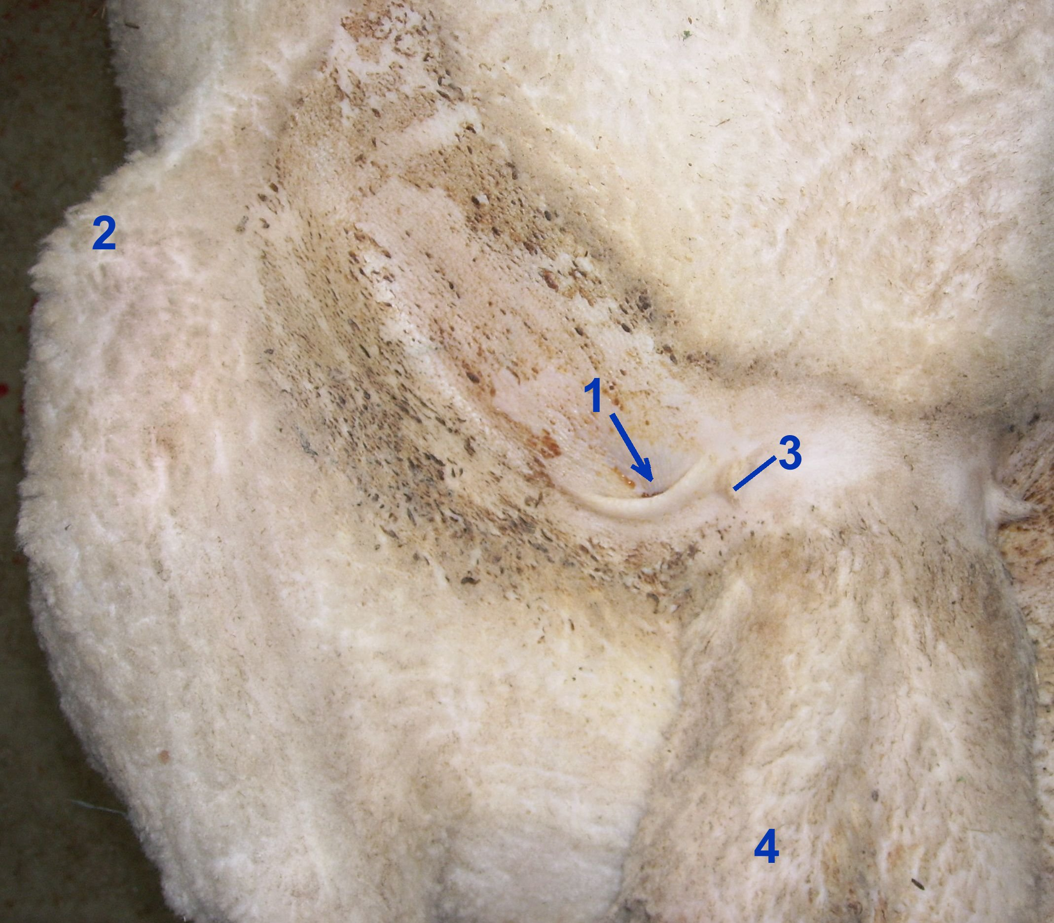 Sinus inguinalis of a Merino ram. 1 Sinus inguinalis, 2 knee, 3 tit, 4 scrotum